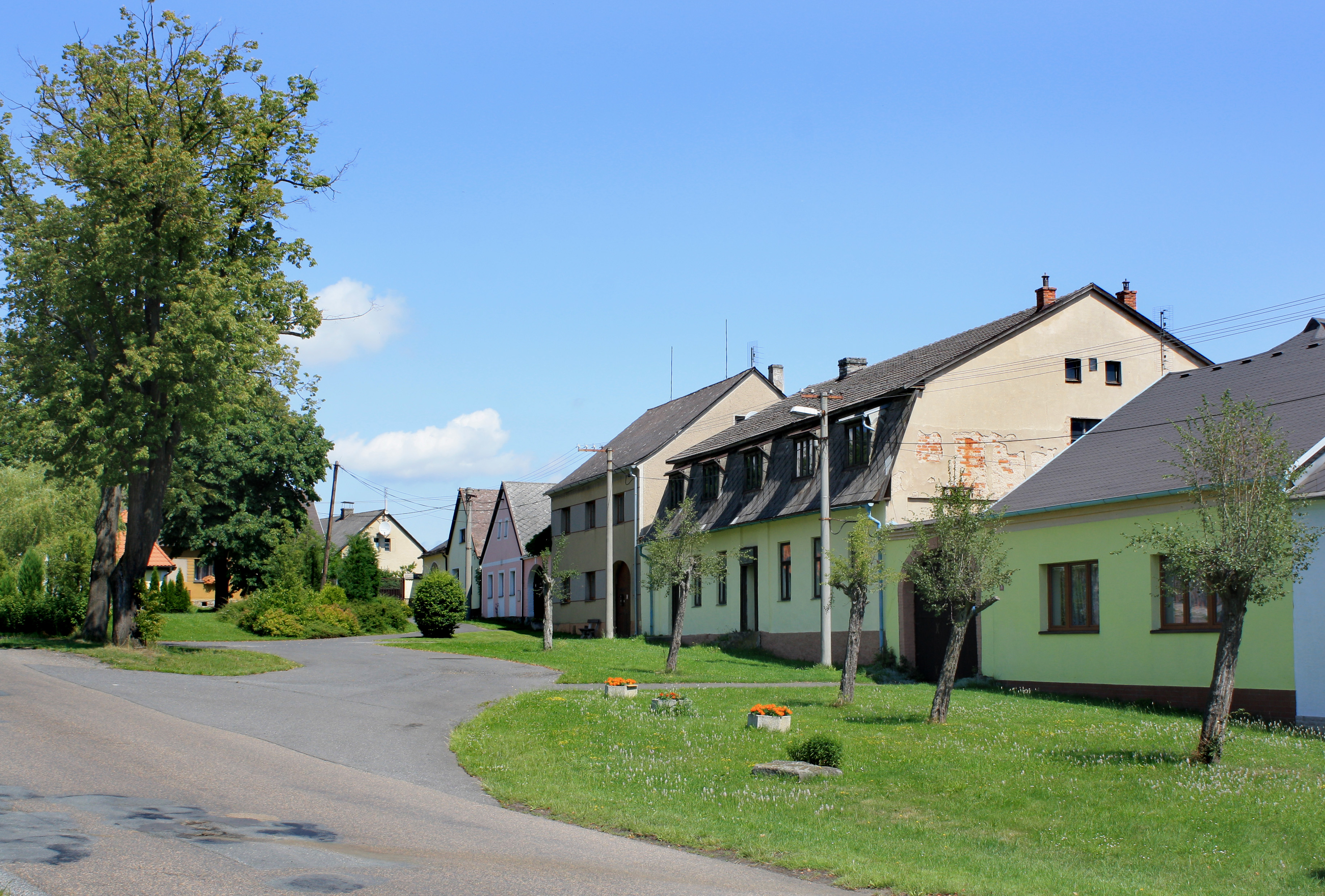 Common in Těně, Czech Republic